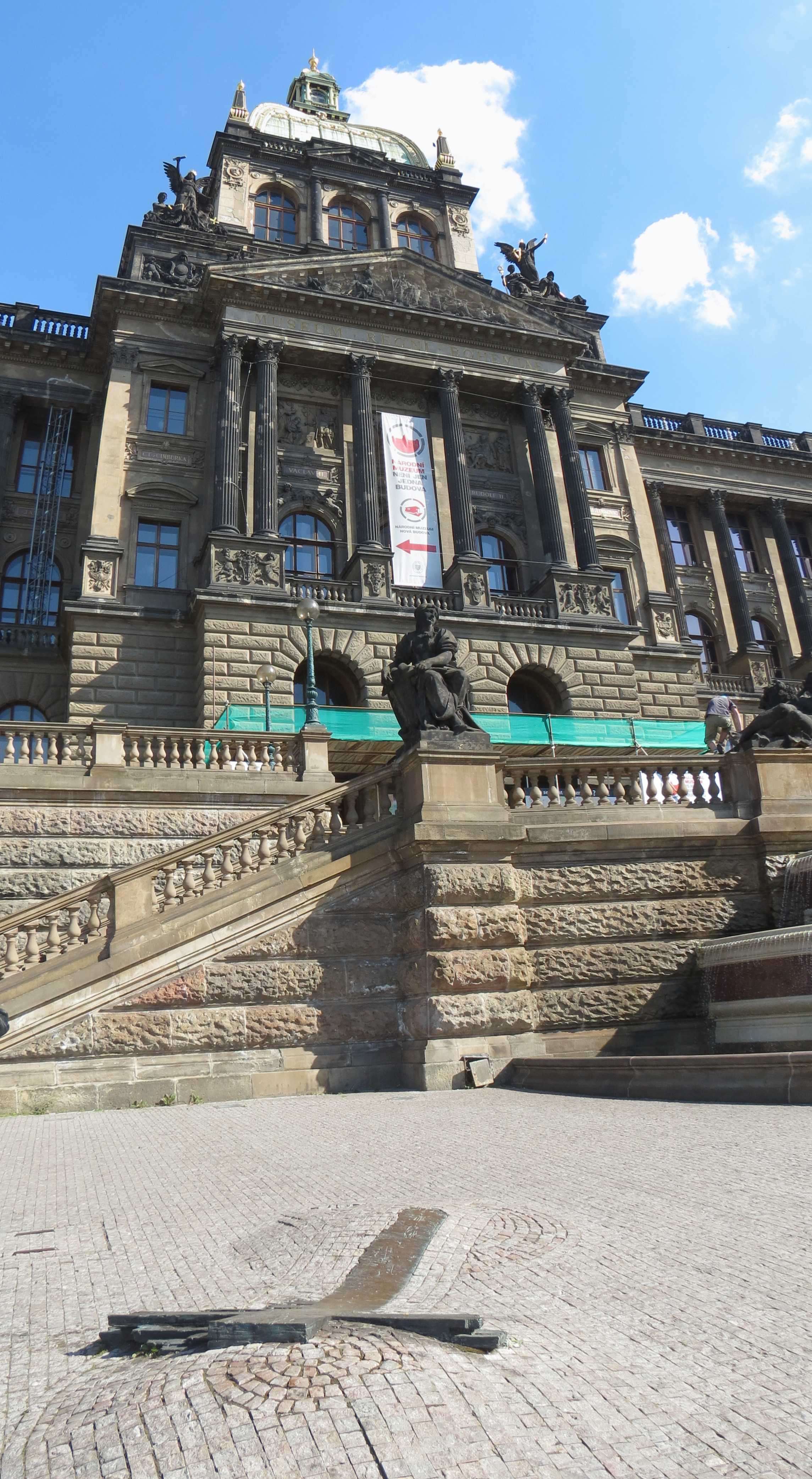 Memorial to Jan Palach and Jan Zajíc at the Wenceslas square in front of the National Museum